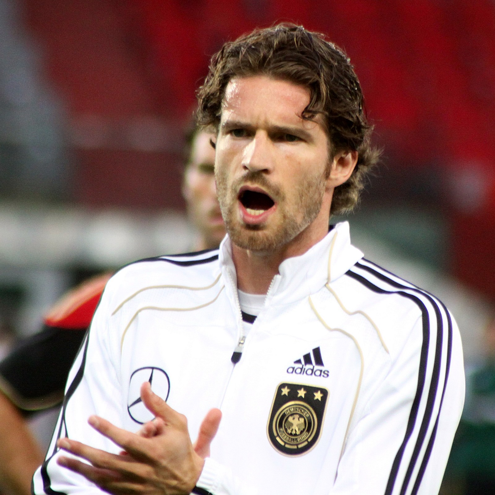 Arne Friedrich (VfL Wolfsburg), german national football team